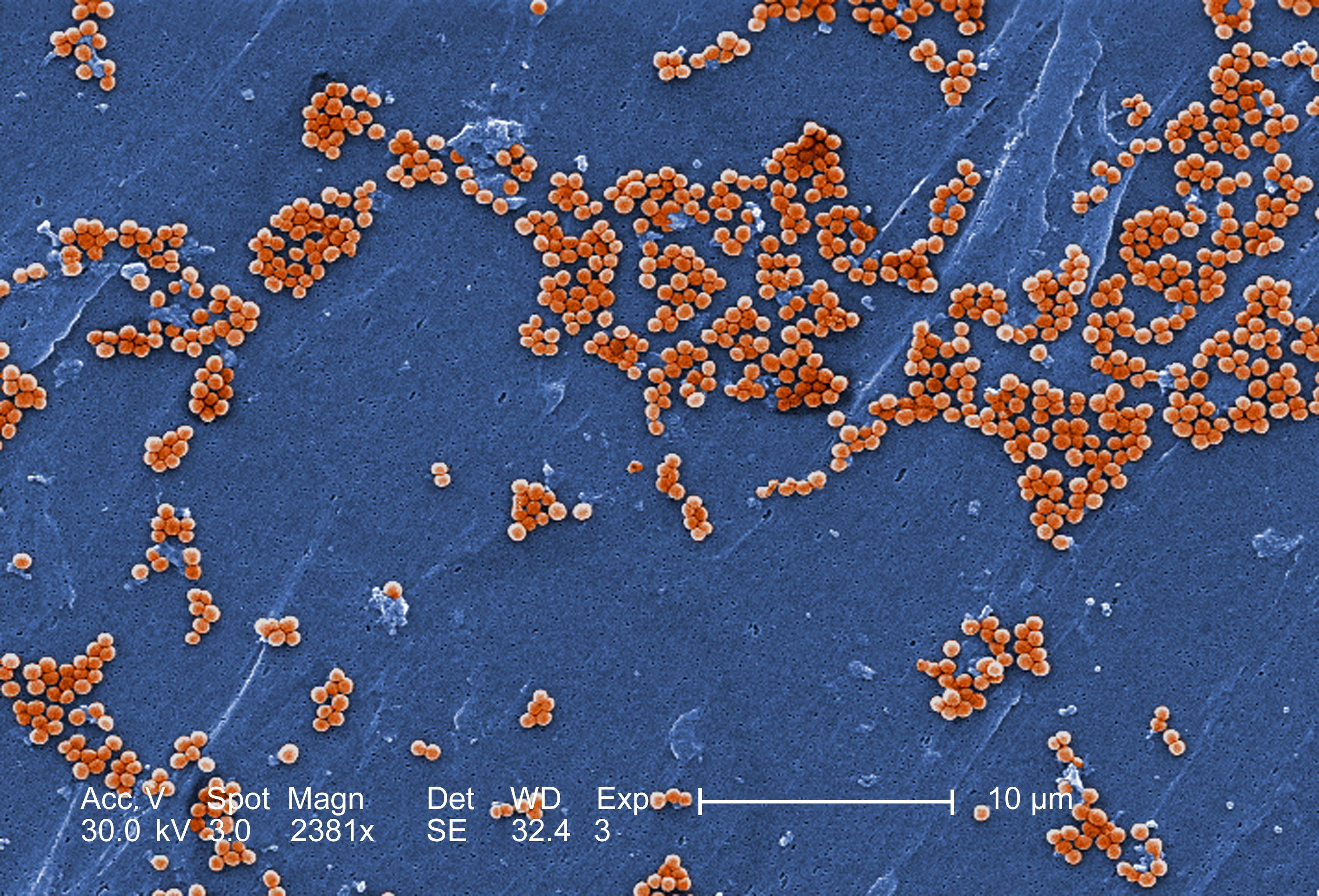 This 2005 scanning electron micrograph (SEM) depicted numerous clumps of methicillin-resistant Staphylococcus aureus bacteria, commonly referred to by the acronym, MRSA; Magnified 2381x. Recently recognized outbreaks, or clusters of MRSA in community settings have been associated with strains that have some unique microbiologic and genetic properties, compared with the traditional hospital-based MRSA strains, which suggests some biologic properties, e.g., virulence factors like toxins, may allow the community strains to spread more easily, or cause more skin disease. A common strain named USA300-0114 has caused many such outbreaks in the United States. See PHIL 7823 for a black and white version of this micrograph. Staphylococcus aureus bacteria are found on the skin of all individuals. However, MRSA is a strain of these bacteria that has become resistant to certain antibiotics. These antibiotics include methicillin and other more common antibiotics such as oxacillin, penicillin and amoxicillin. Staph infections, including MRSA, occur most frequently among persons in hospitals and healthcare facilities (such as nursing homes and dialysis centers) who have weakened immune systems, however, the manifestation of MRSA infections that are acquired by otherwise healthy individuals, who have not been recently hospitalized, or had a medical procedure such as dialysis, or surgery, first began to emerged in the mid- to late-1990's. These infections in the community are usually manifested as minor skin infections such as pimples and boils. Transmission of MRSA has been reported most frequently in certain populations, e.g., children, sports participants, or jail inmates.